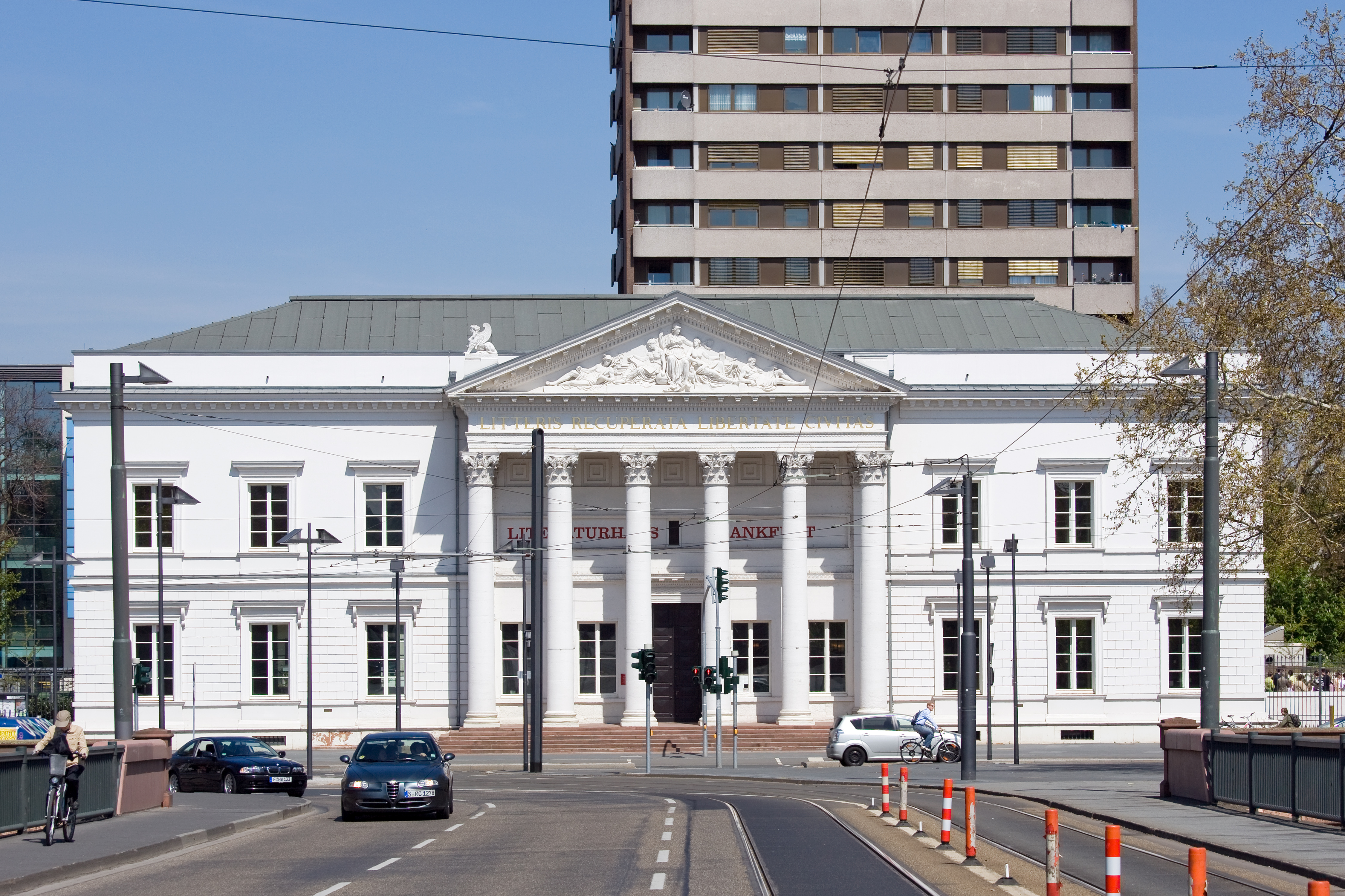 Frankfurt on the Main: Alte Stadtbibliothek (Old Municipal Library) as seen from the Ignatz-Bubis-Bruecke (Ignatz Bubis Bridge)